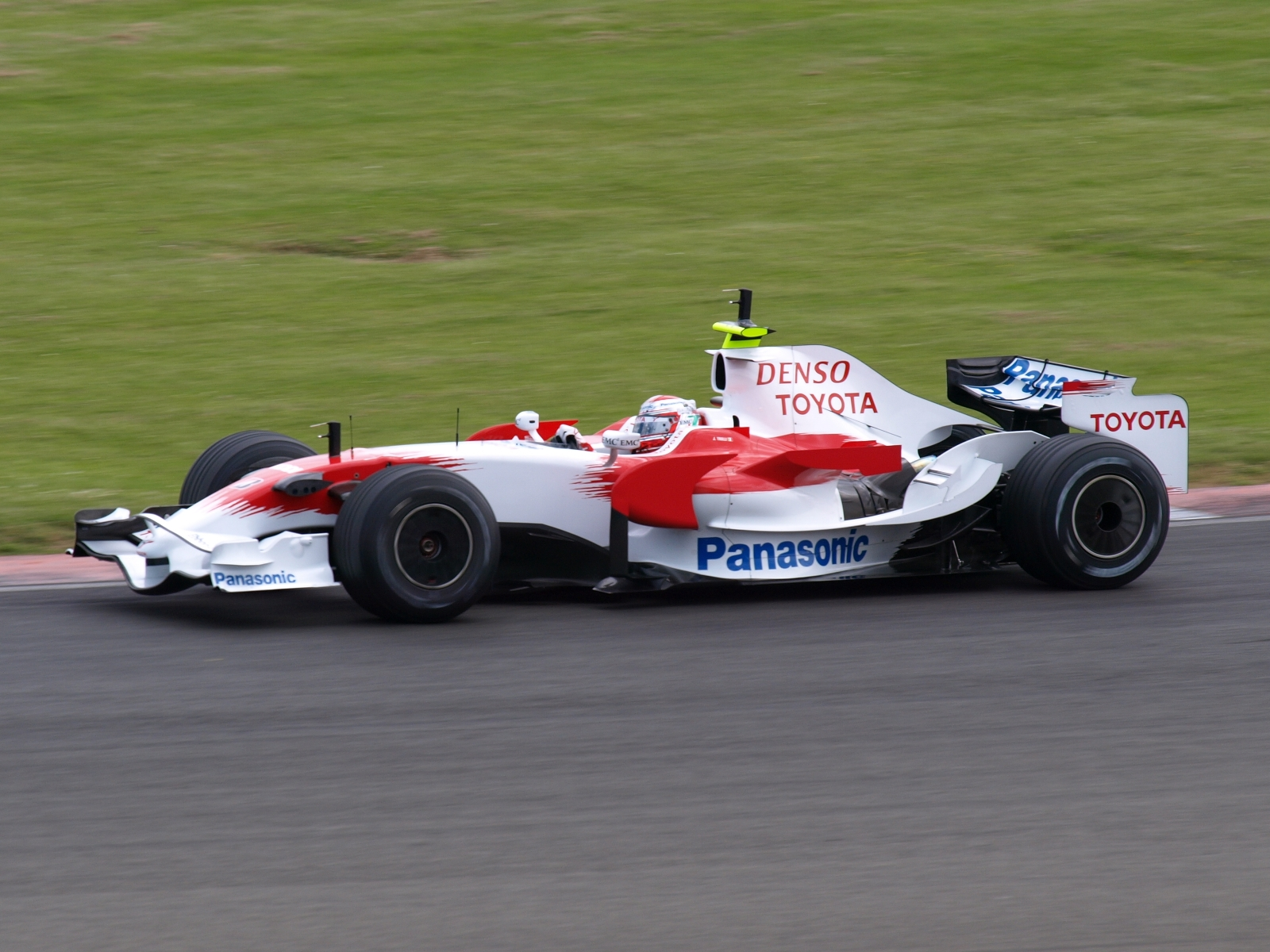 Jarno Trulli testing for Toyota F1 at Silverstone Circuit in June 2008.